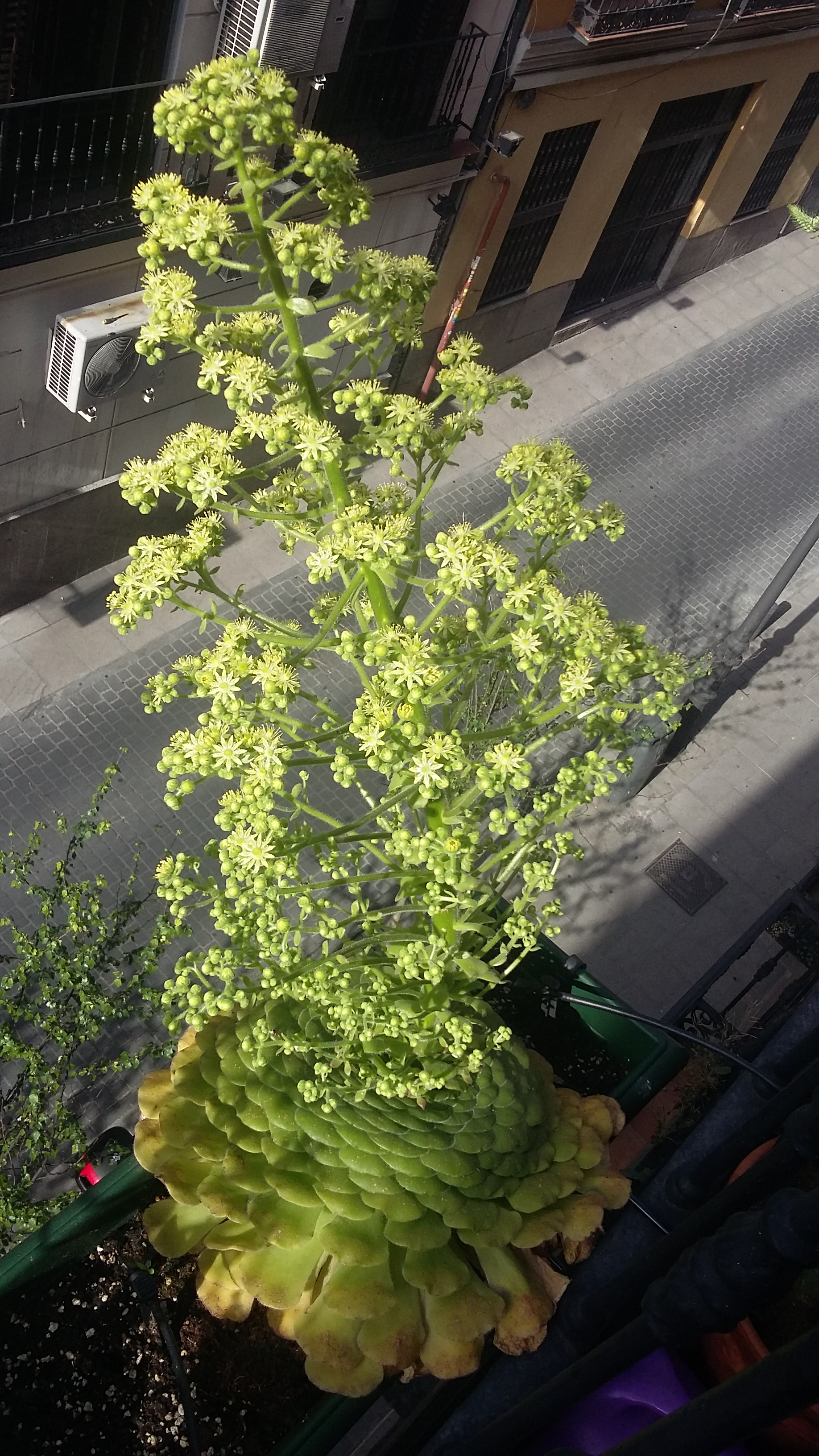 This plant has a circular base with 35 cm diameter and it is 80 cm tall.